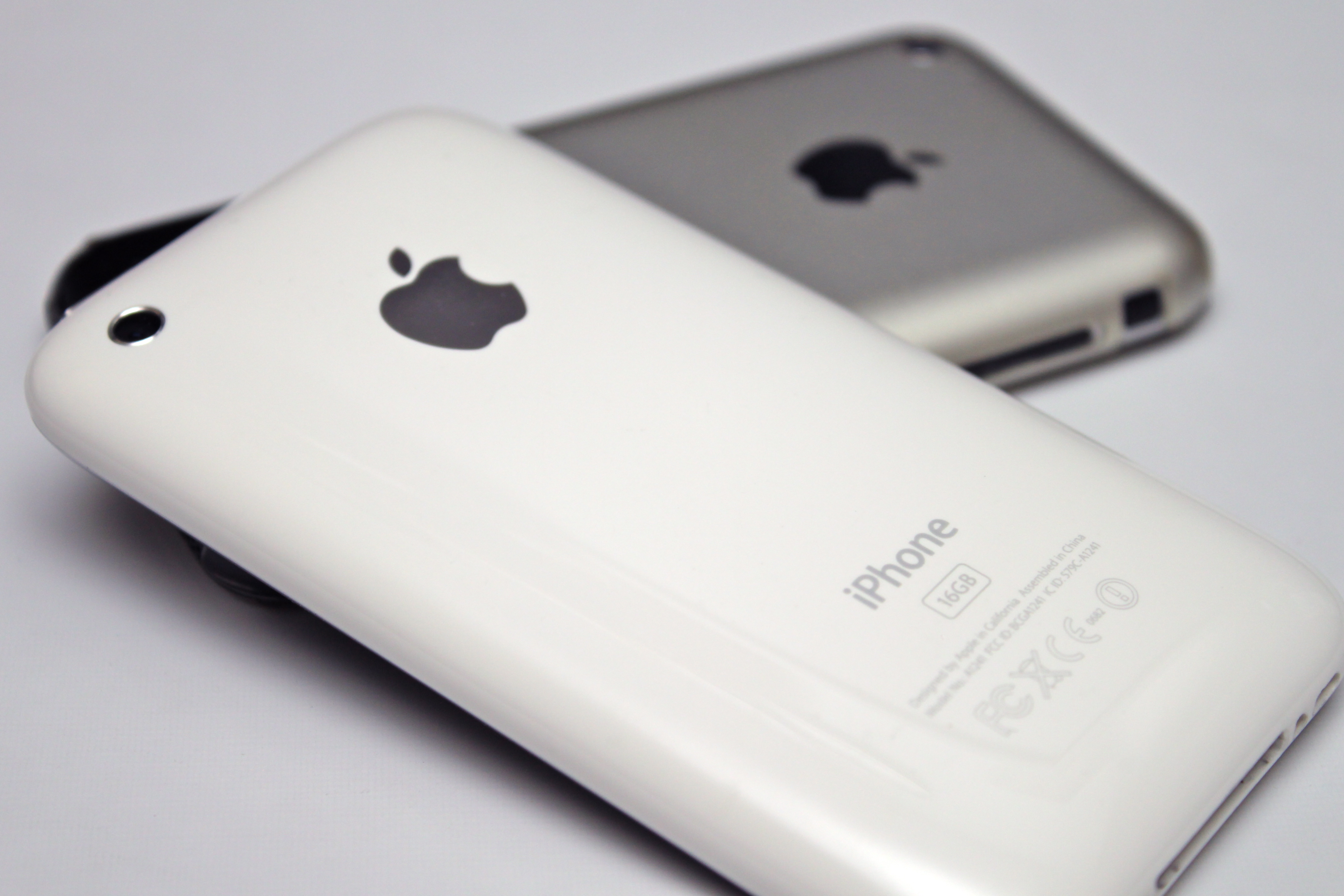 Original iPhone and iPhone 3GS. The original one has iPhone 3.0 software for development purpose. Taken with Canon EOS Rebel T1i (Kiss X3, 500D) and 580EX II.